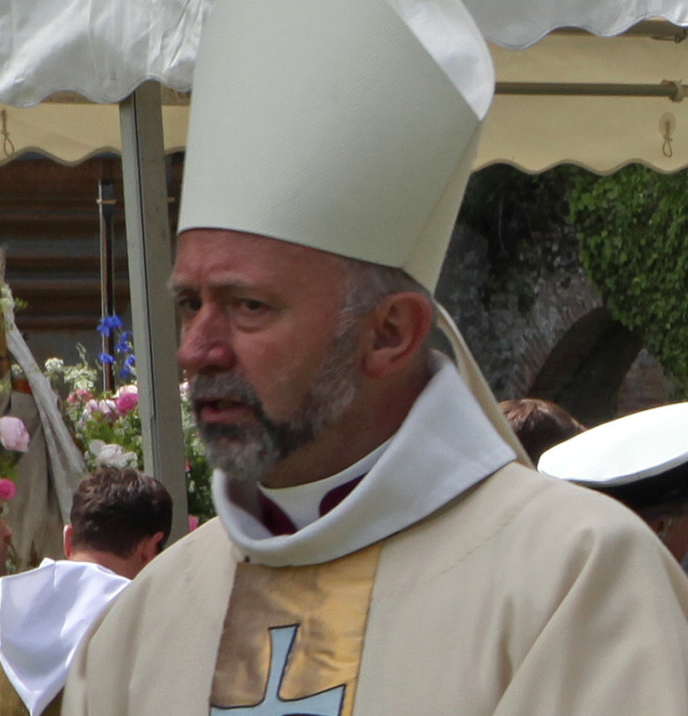 Church of England bishops during the National Pilgrimage to Walsingham, 2012